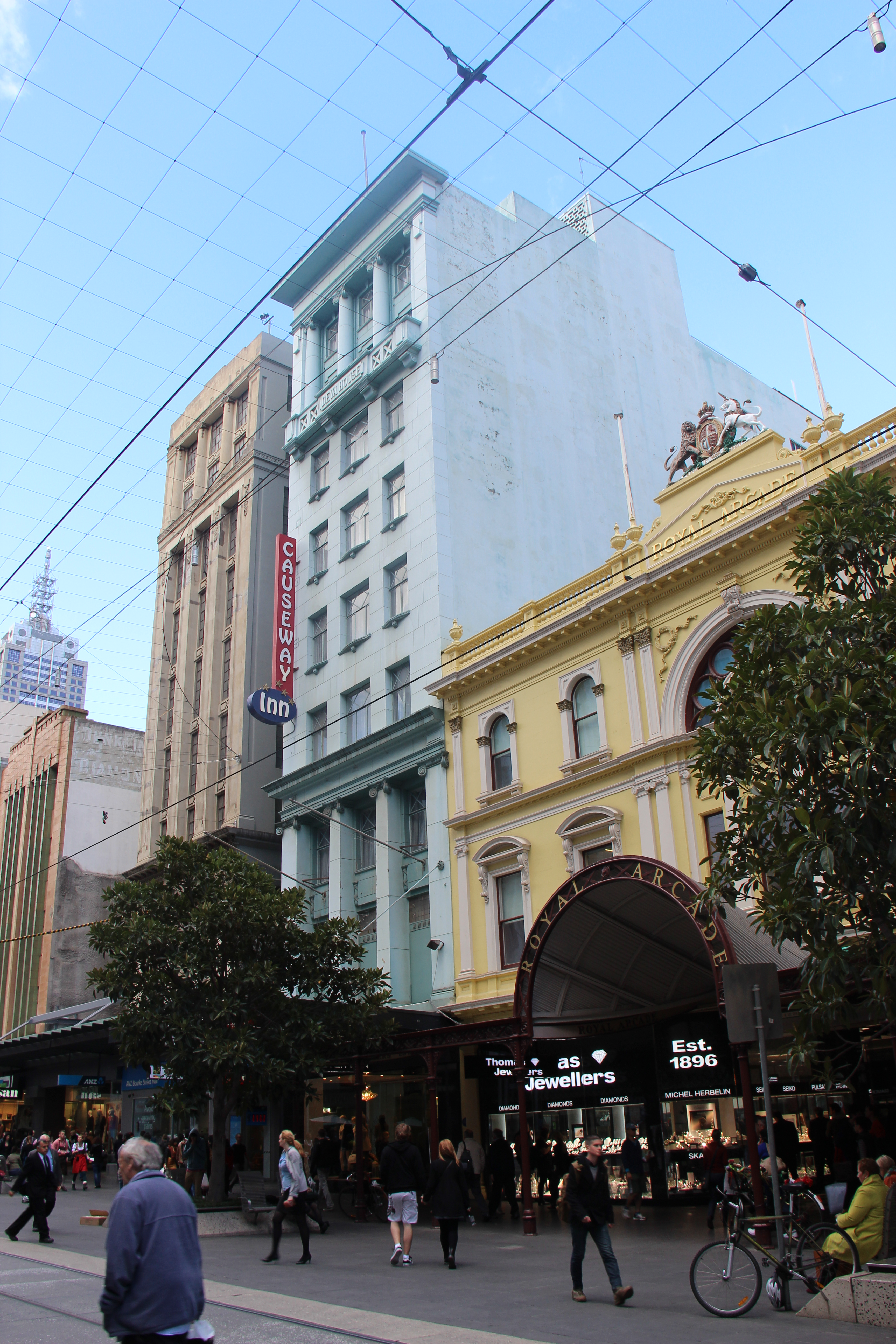 Deva house, side elevation